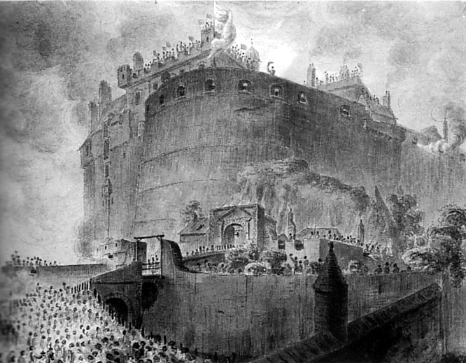 Visit of King George IV to Scotland